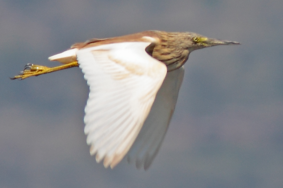 Squacco heron in flight, showing bright white wings, Kalloni salt pans, Lesvos, Greece